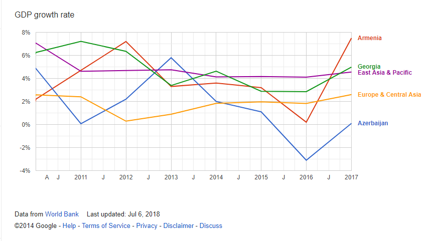 GDP growth rates in Armenia, Georgia and Azerbaijan in 2010 - 2017, World Bank Data, Chart by Google